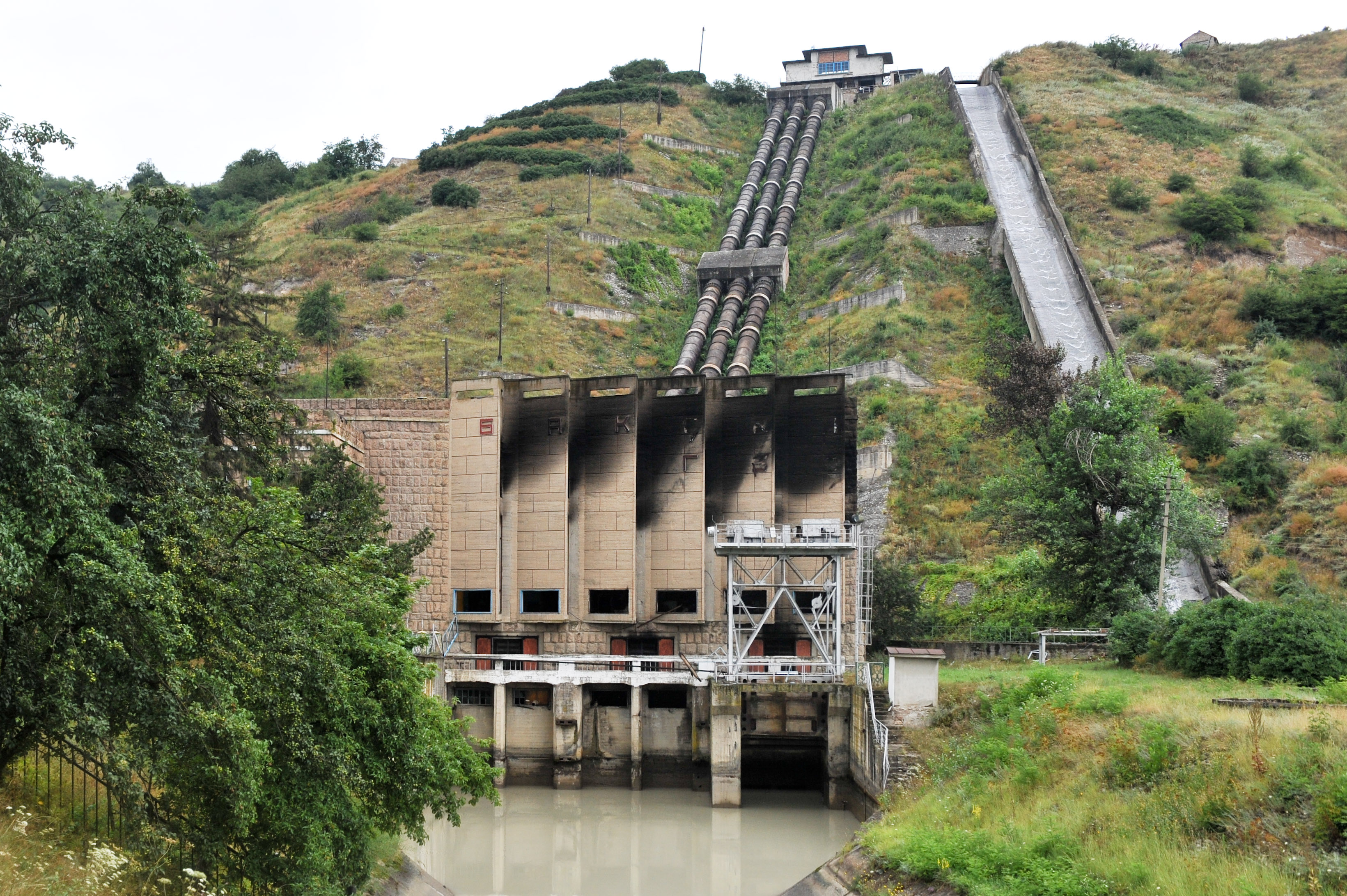 Baksan HPP